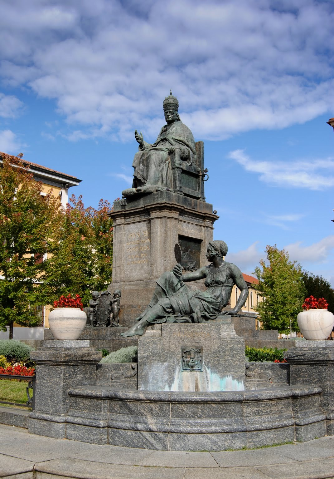 Monumento a papa Pio XI